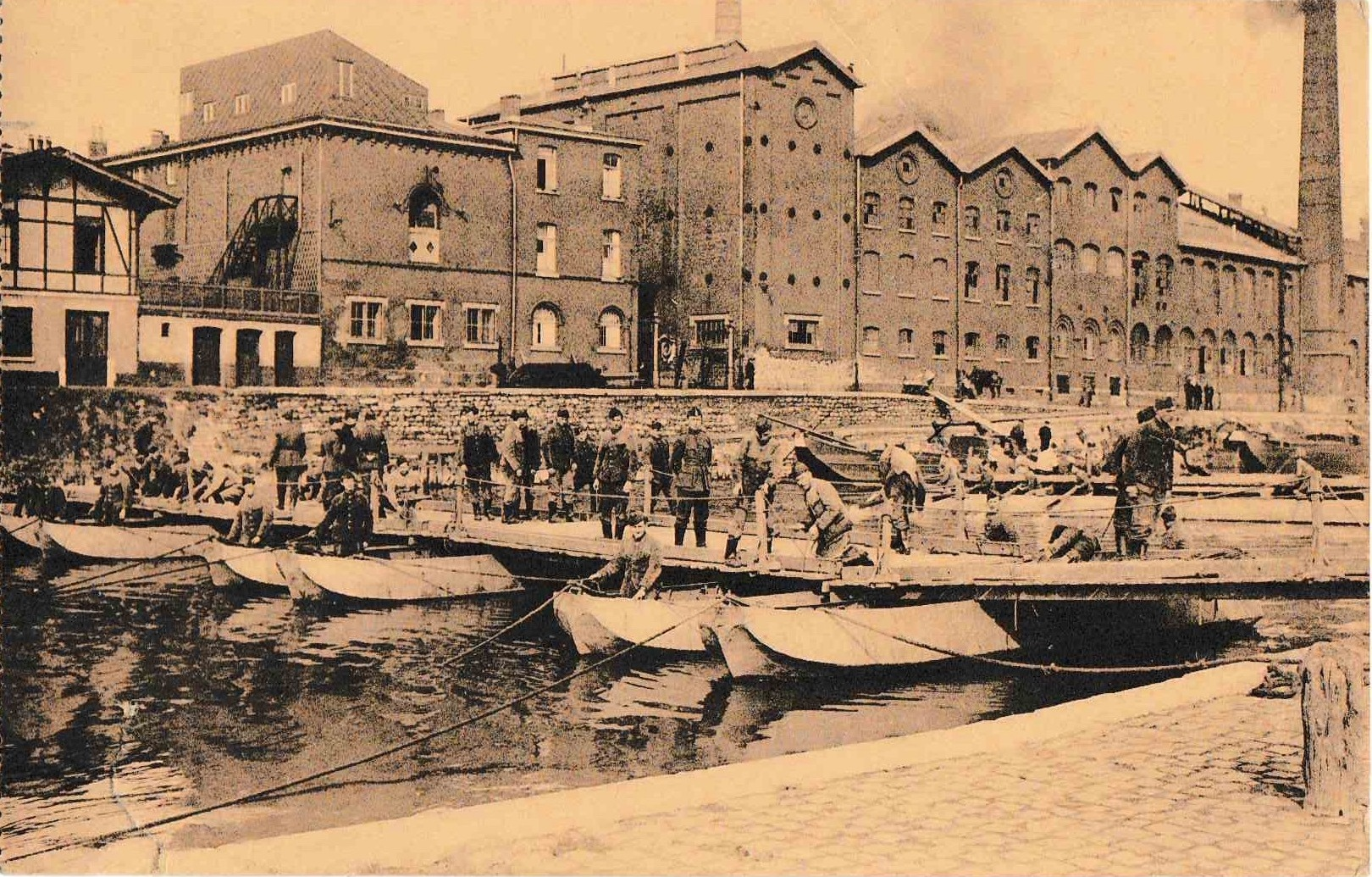 The 3rd French Regiment building a pontoon bridge in 1930. Repeatedly published on under CC-BY-NC-SA 2.0 by Patrick Gaspard (chimay2980)